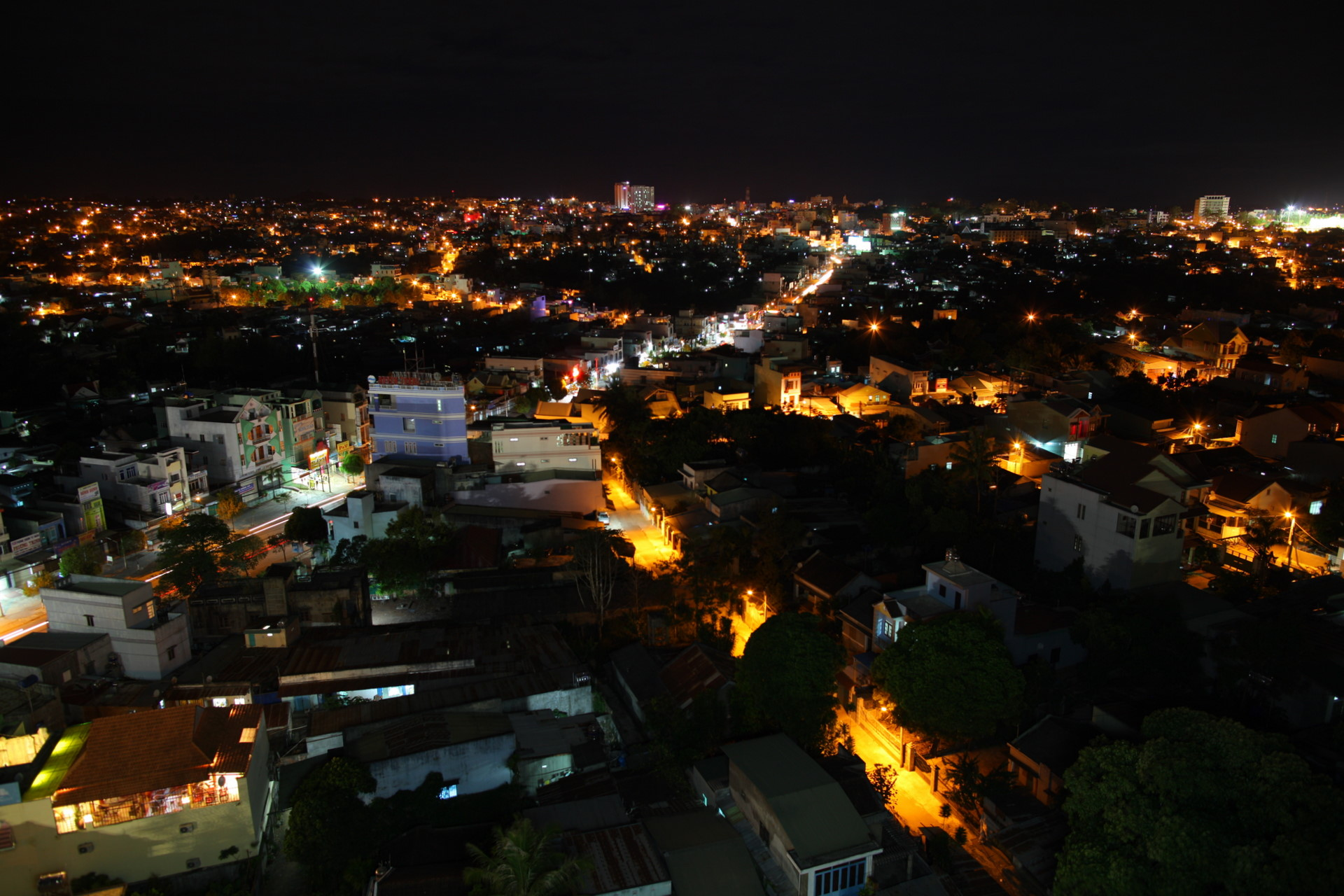 Pleiku